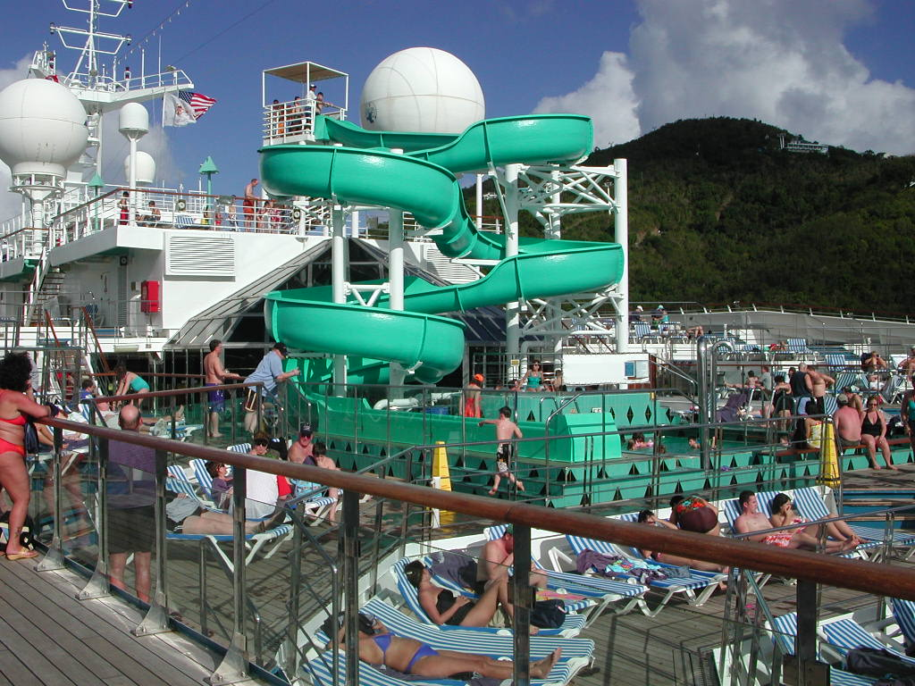 the lido deck on Carnival Destiny.